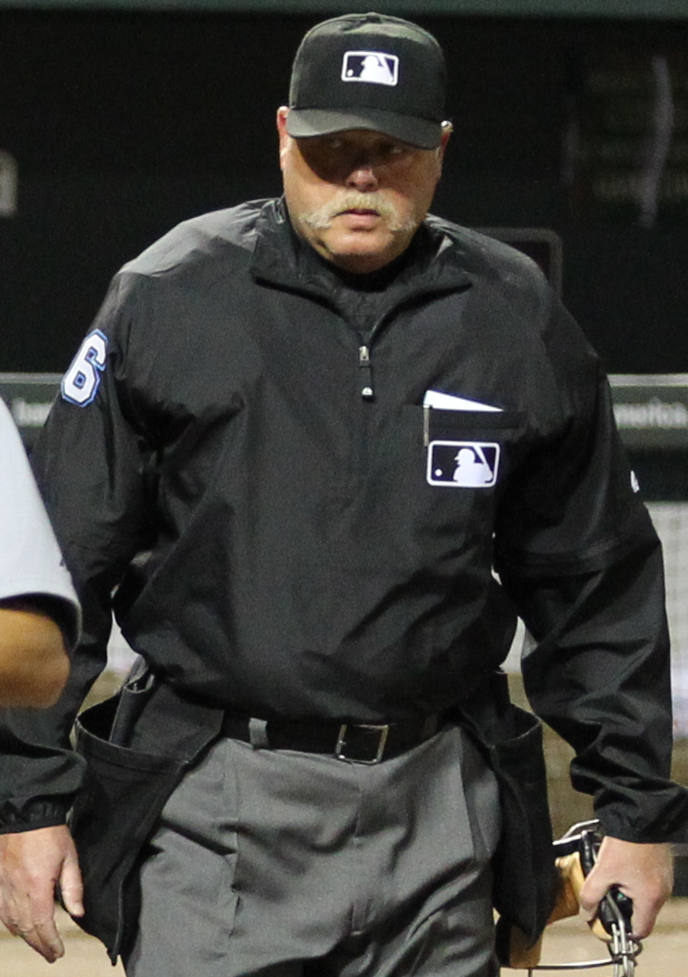 MLB umpire Jim Joyce - April 6, 2011